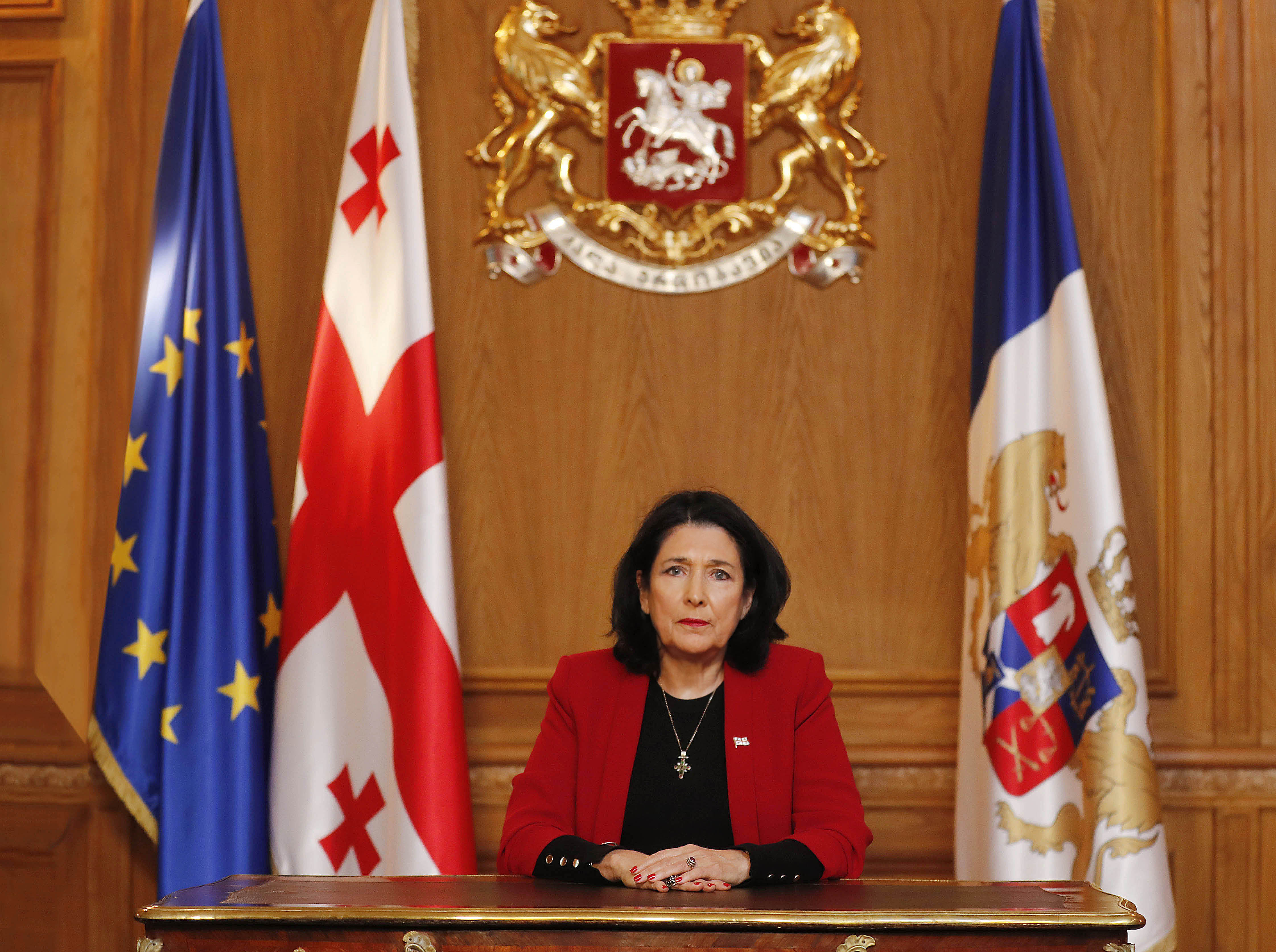 Georgian President Salome Zourabichvili addressing the nation from the Sulkhan Saba Orbeliani Presidential Cabinet to announce her declaration of a state of emergency during the COVID-19 pandemic across Georgia.